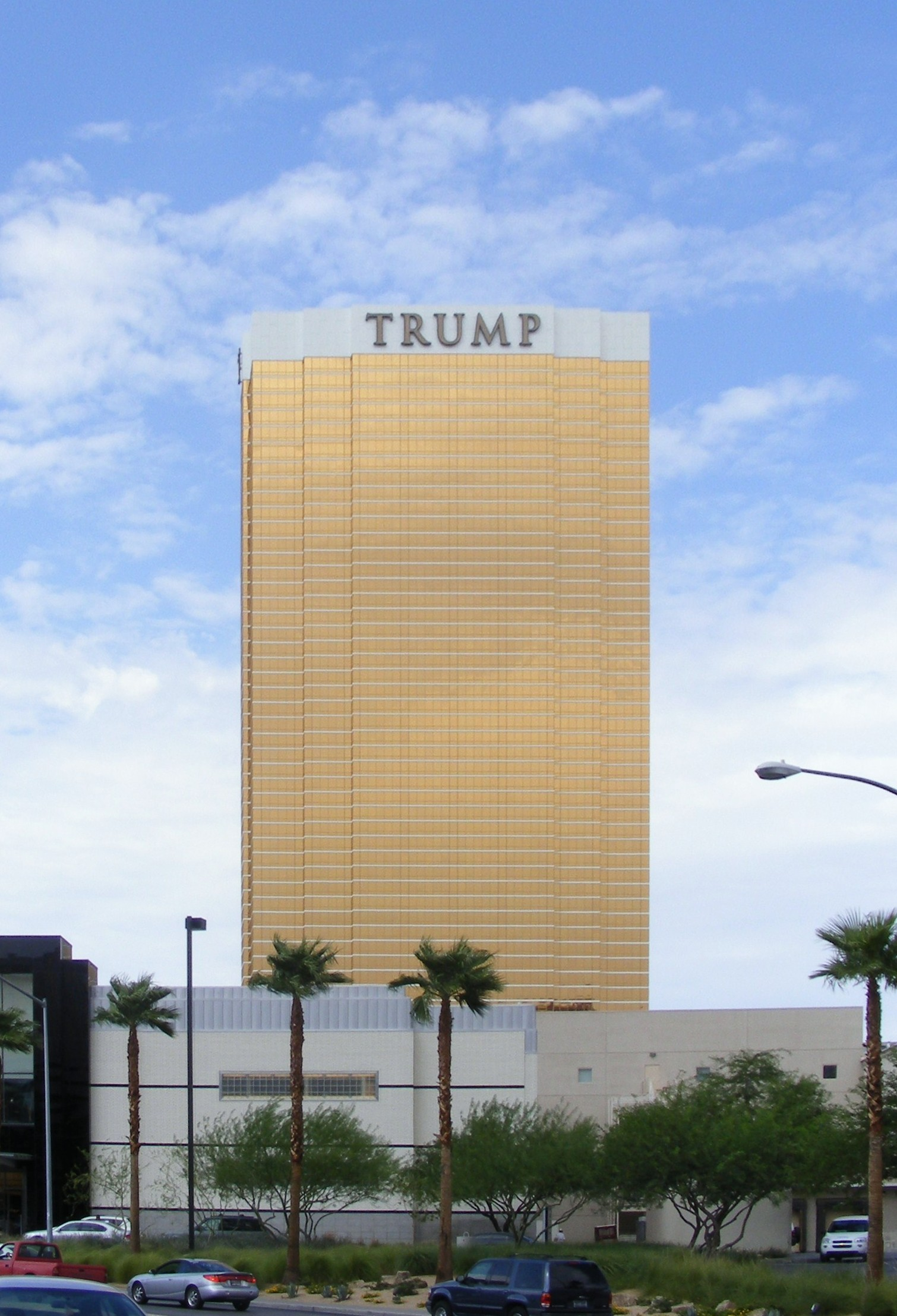 Trump Hotel in Las Vegas (tilt and vertical & horizontal perspective corrected)